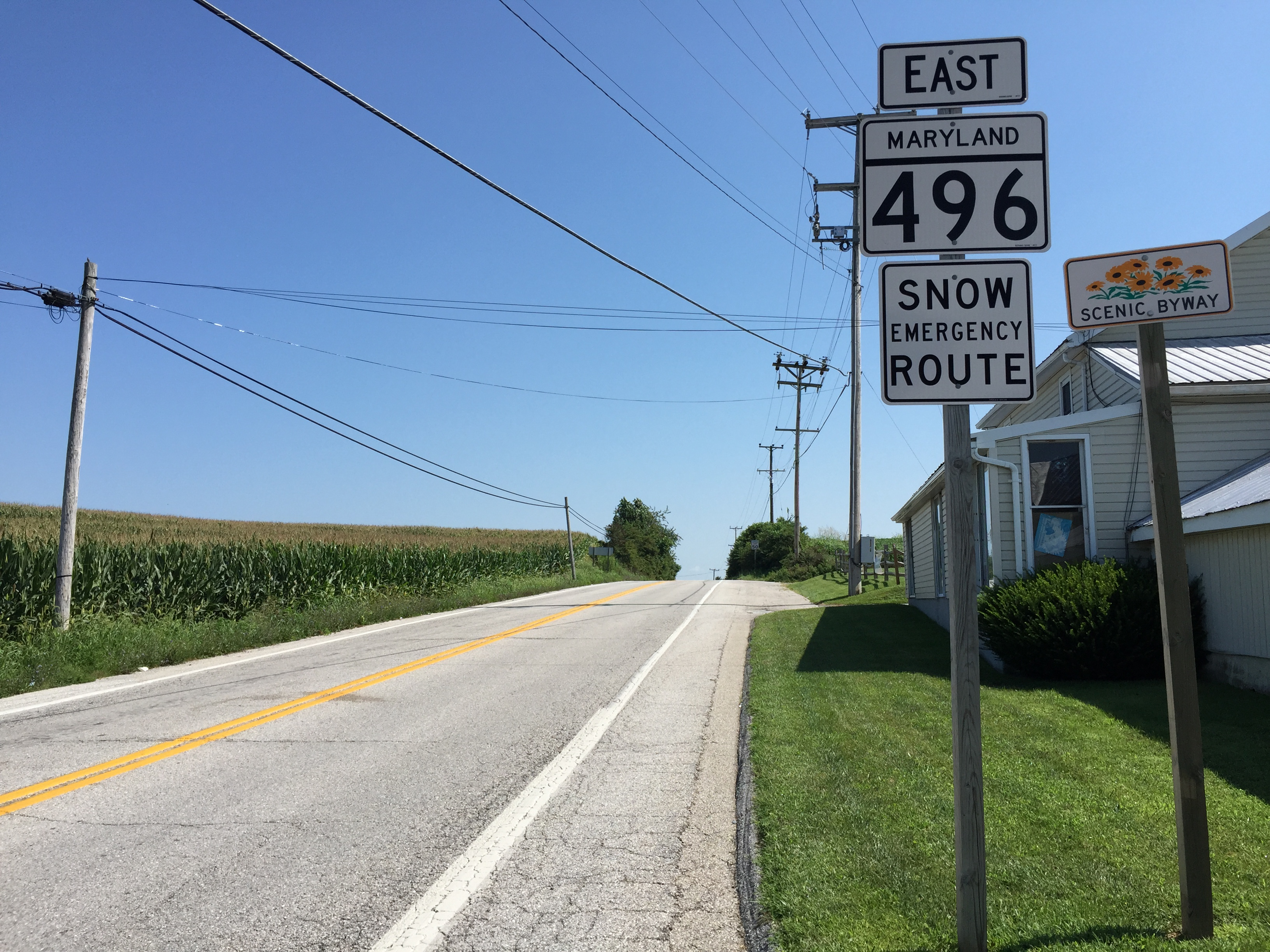 View east along Maryland State Route 496 (Bachmans Valley Road) at Maryland State Route 97 (Littlestown Pike) in Mount Pleasant, Carroll County, Maryland